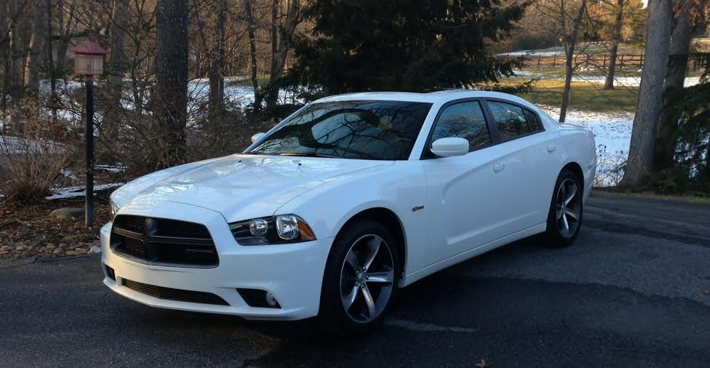 Dodge Charger SXT Plus 2014 (100th Anniversary) - I took this picture of my Dodge Charger SXT Plus in 100th Anniversary trim on February 15, 2014.